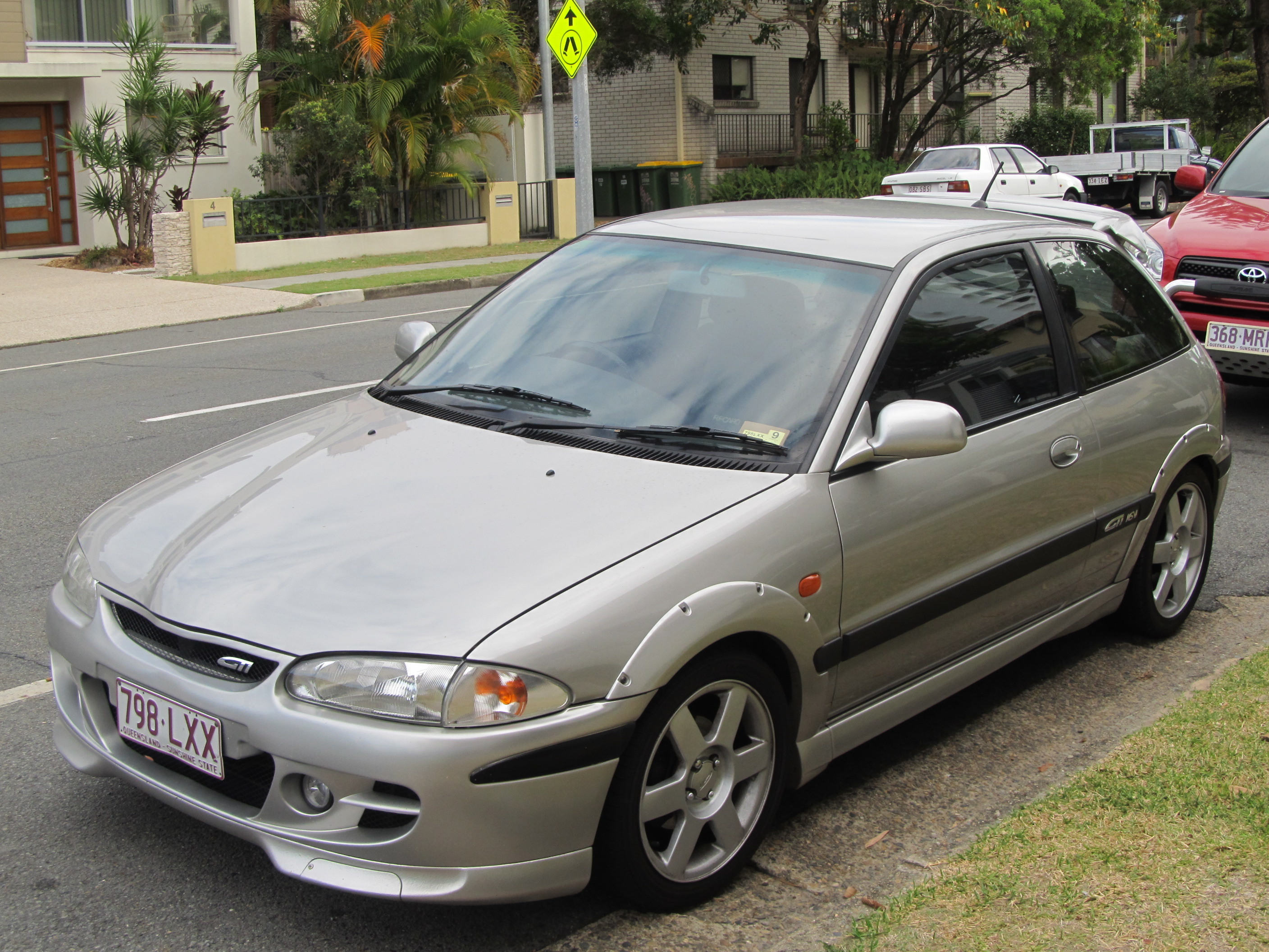 2002 Proton Satria GTi. Protons are everywhere on the Gold Coast, particularly Savvys and Gen-2s... Anyway, I saw a few of these neat wee things. This was pretty clean, especially as the somewhat 'restricted' P-platers like them... Photo taken at 9.19am AEST, on October 2, 2012.